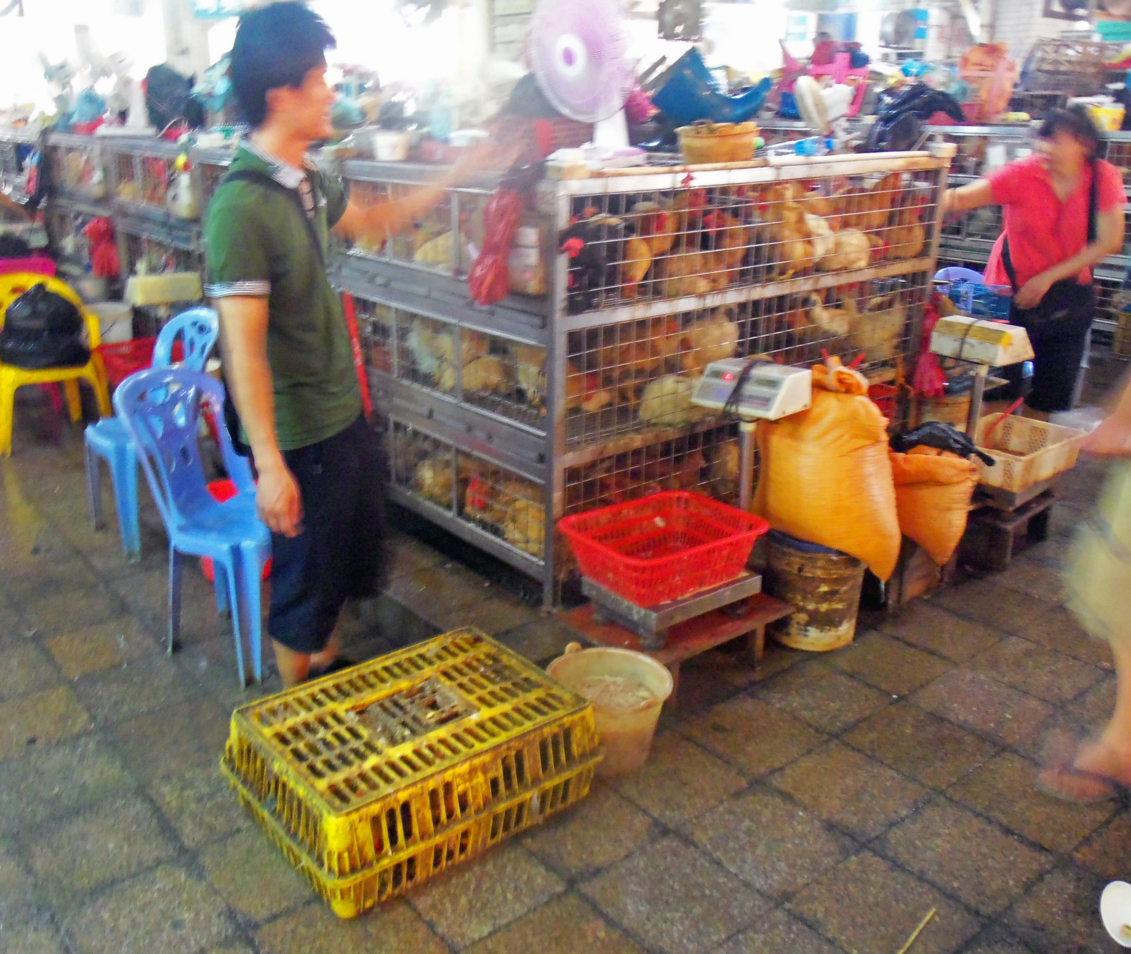 Ducks and geese in cages at a wet market in Shenzhen's Luohu District, awaiting purchase and consumption